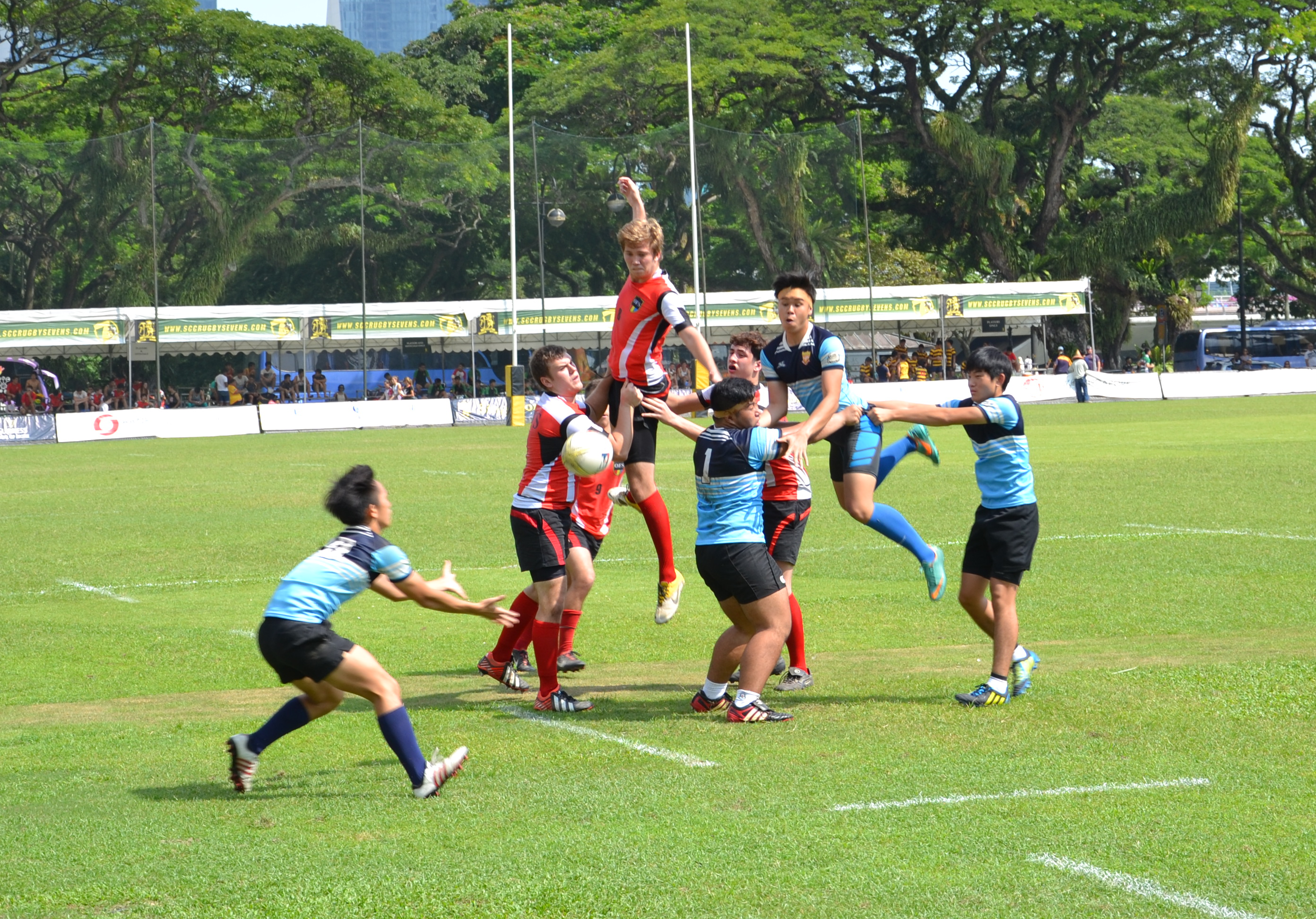 Schoolboy rugby at the Padang, Singapore, during the Singapore Cricket Club Rugby Sevens tournament.